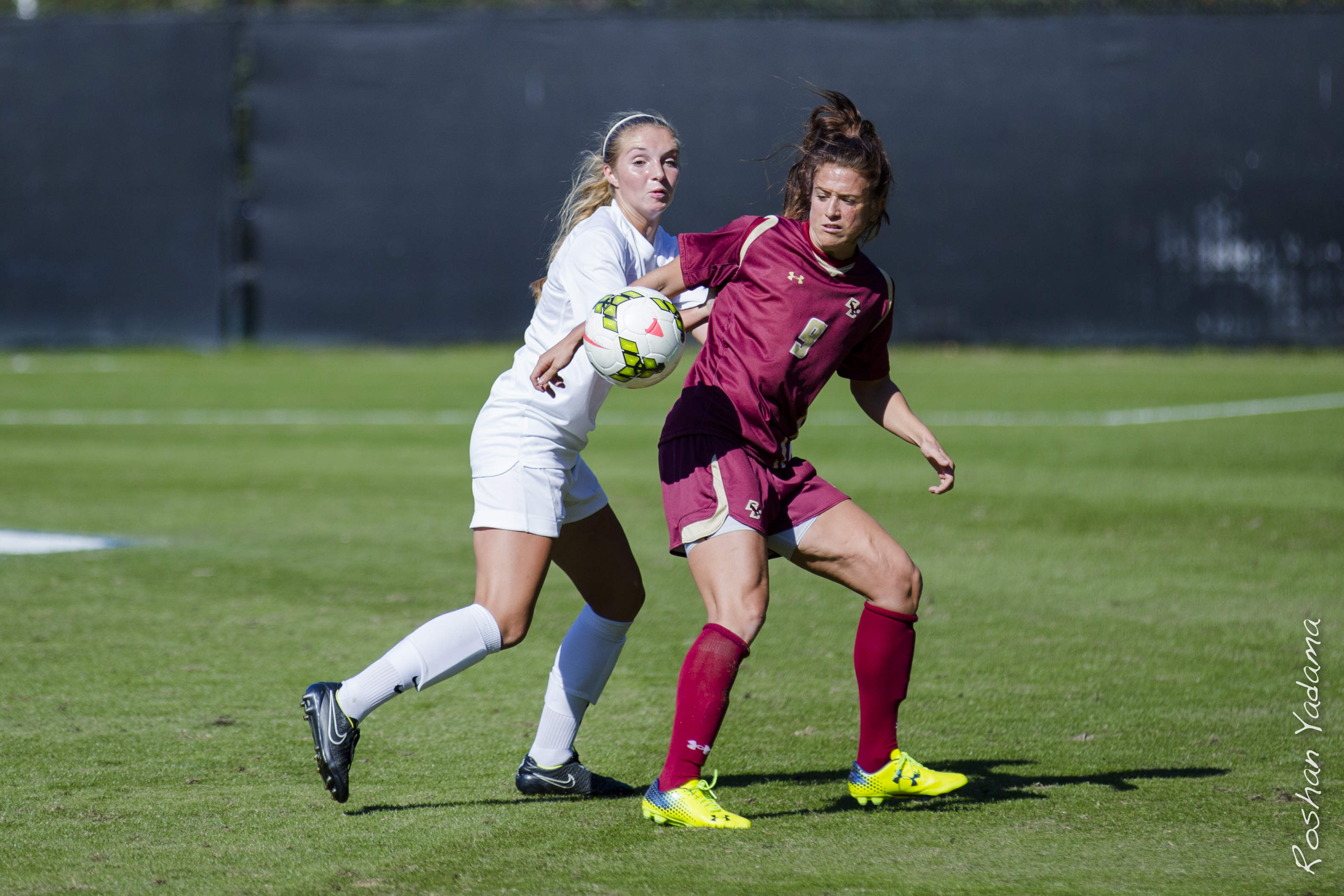 Duke Women's Soccer vs. Boston College - 2014 Senior Night